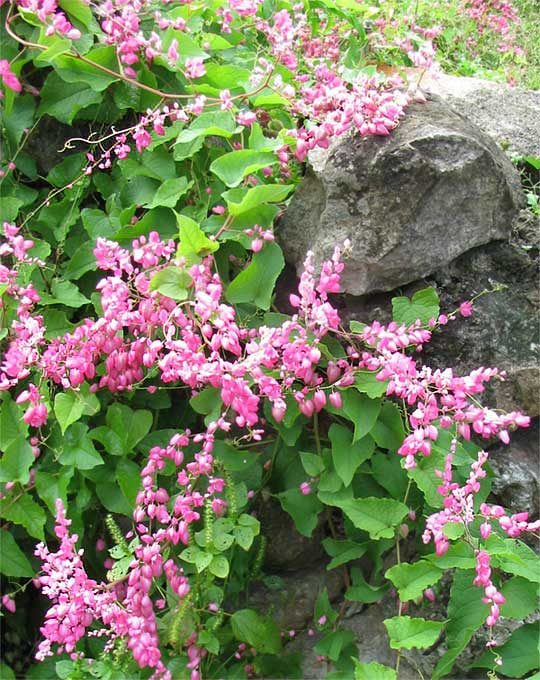 Antigonon leptopus growing on a stone in the Yucatán.